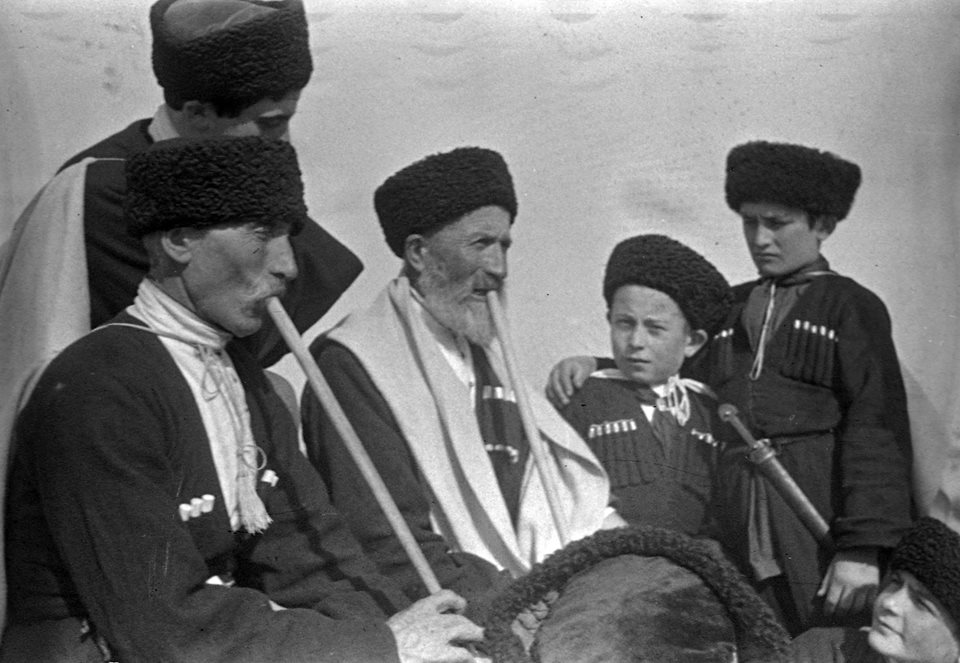 1936 год. Жабоев М. из селения Нижний Хулам за игрой в "Сыбызгы", на празднике в честь 15 -летия Кабардино-Балкарии.